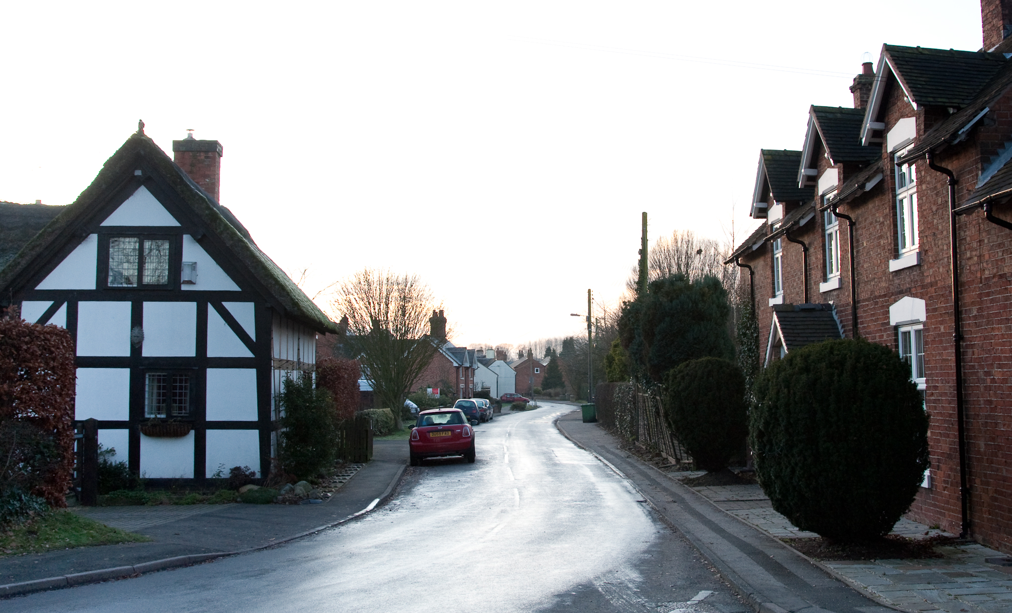 View of Church Eaton from the church.